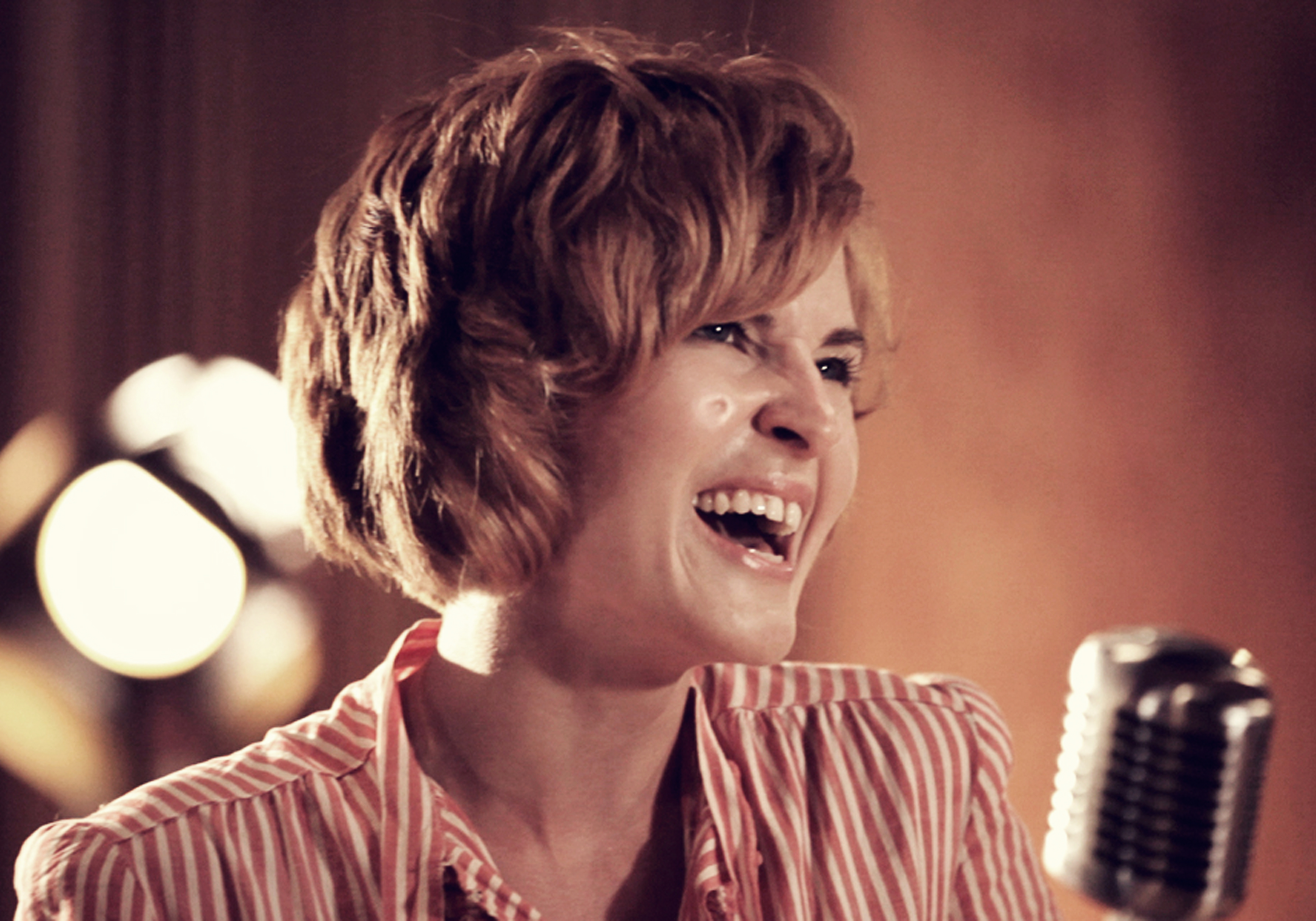 Photo ©Rebecca Joelson of Erika Davies (Vocalist / Songwriter / Fashion Designer)